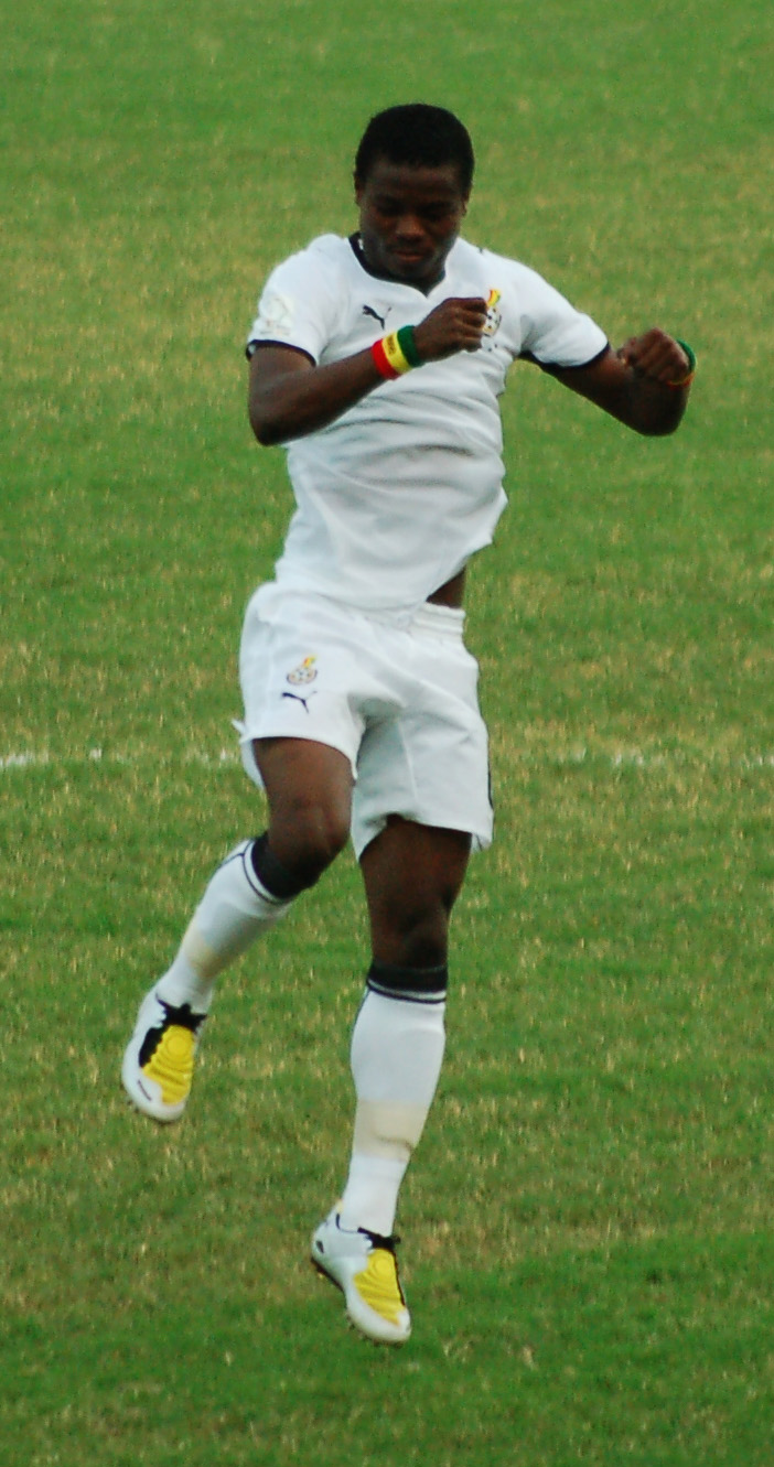 Annan warms up - Ghana v Nigeria, African Cup of Nations 2008